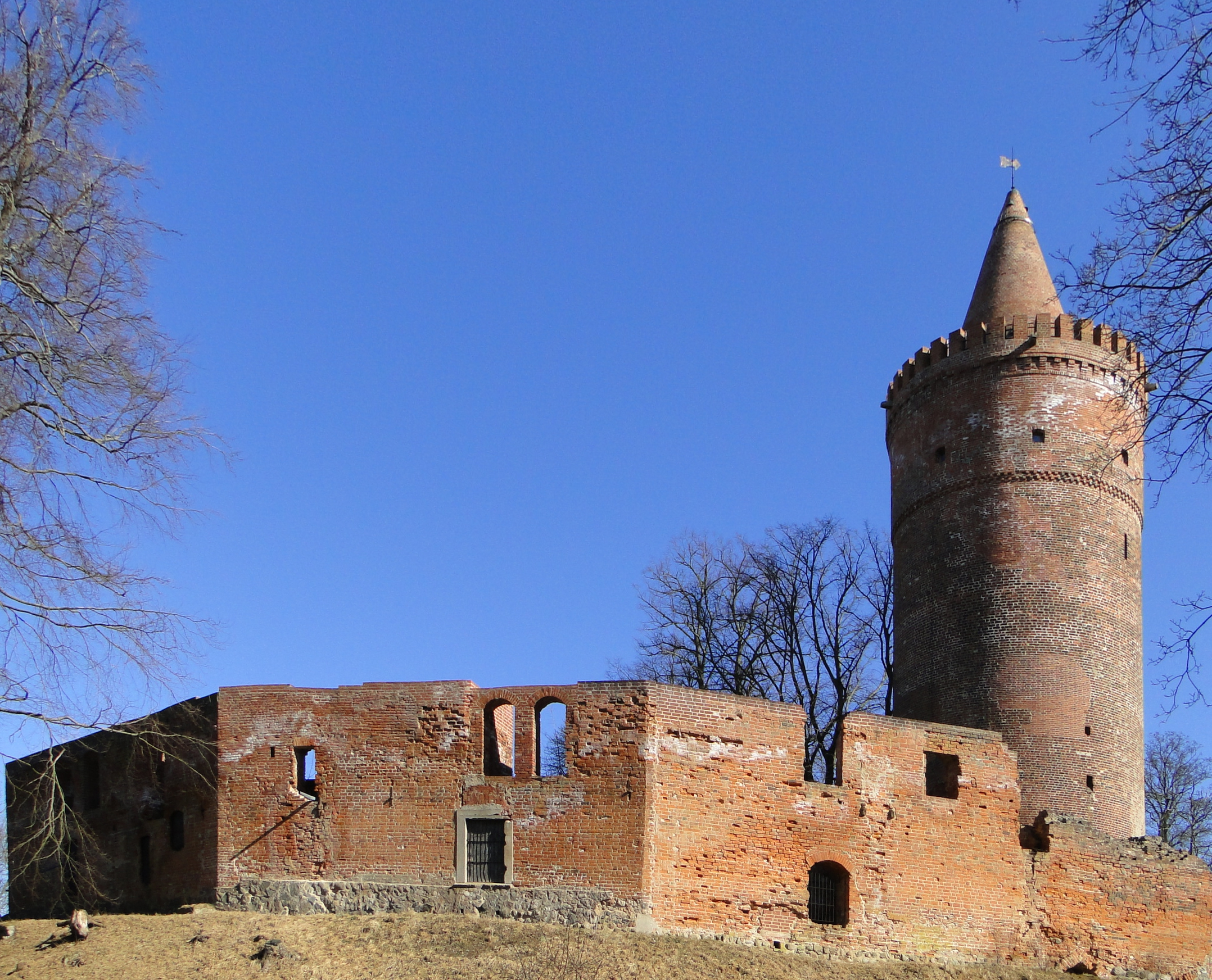 Castle in Burg Stargard, district Mecklenburg-Strelitz, Mecklenburg-Vorpommern, Germany